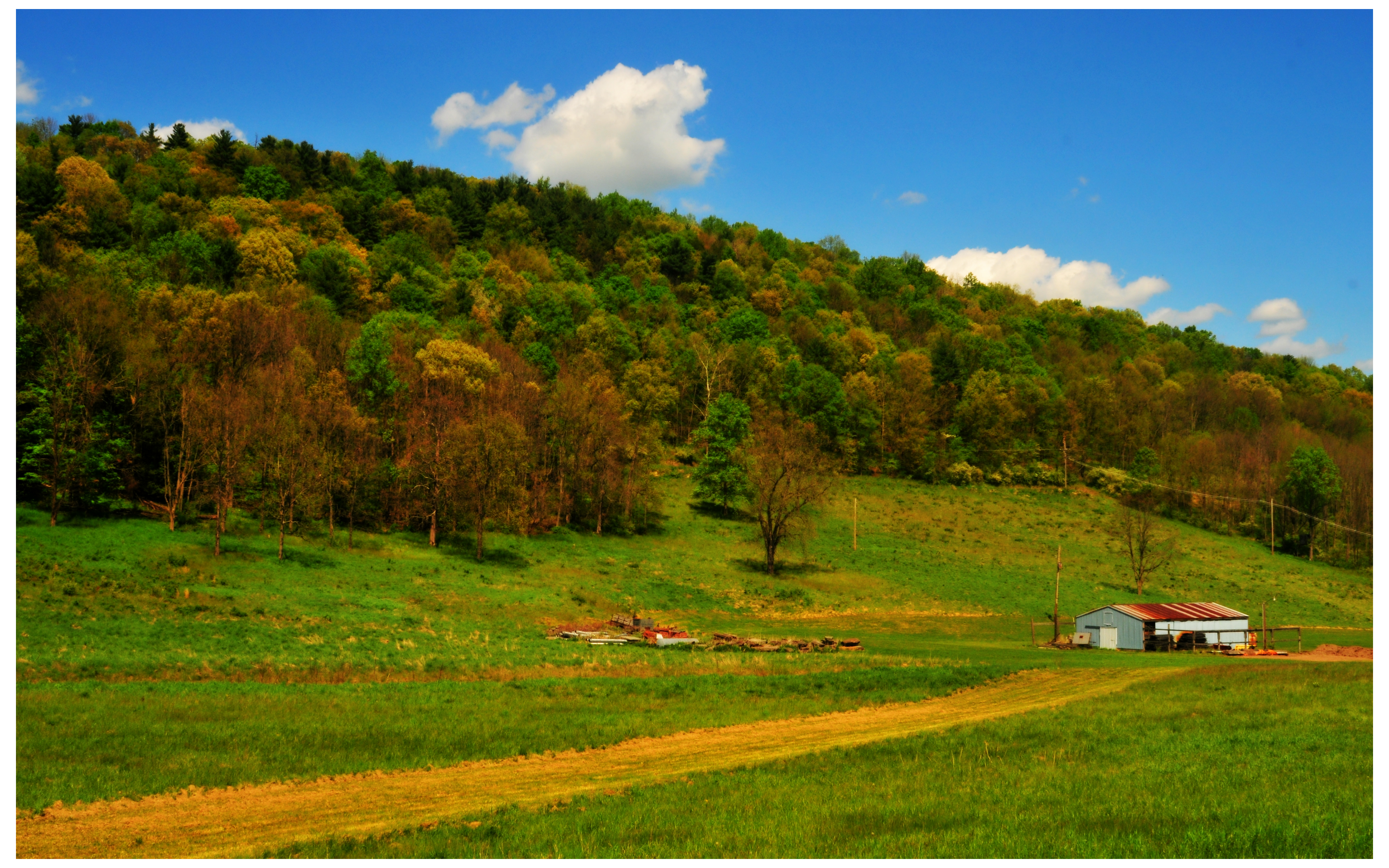 Landscape in Tunkhannock Township, Wyoming County, Pennsylvania